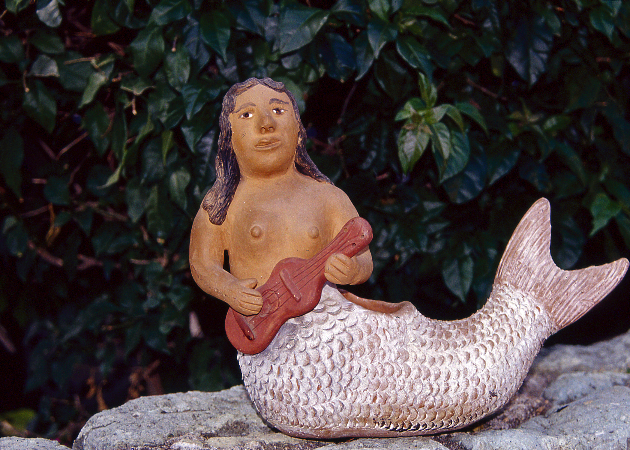 Mermaid by Teodora Blanco Nuñez of Santa Maria Atzompa, Oaxaca, Mexico